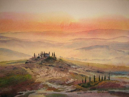 Val d'Orcia, an area in Tuscany